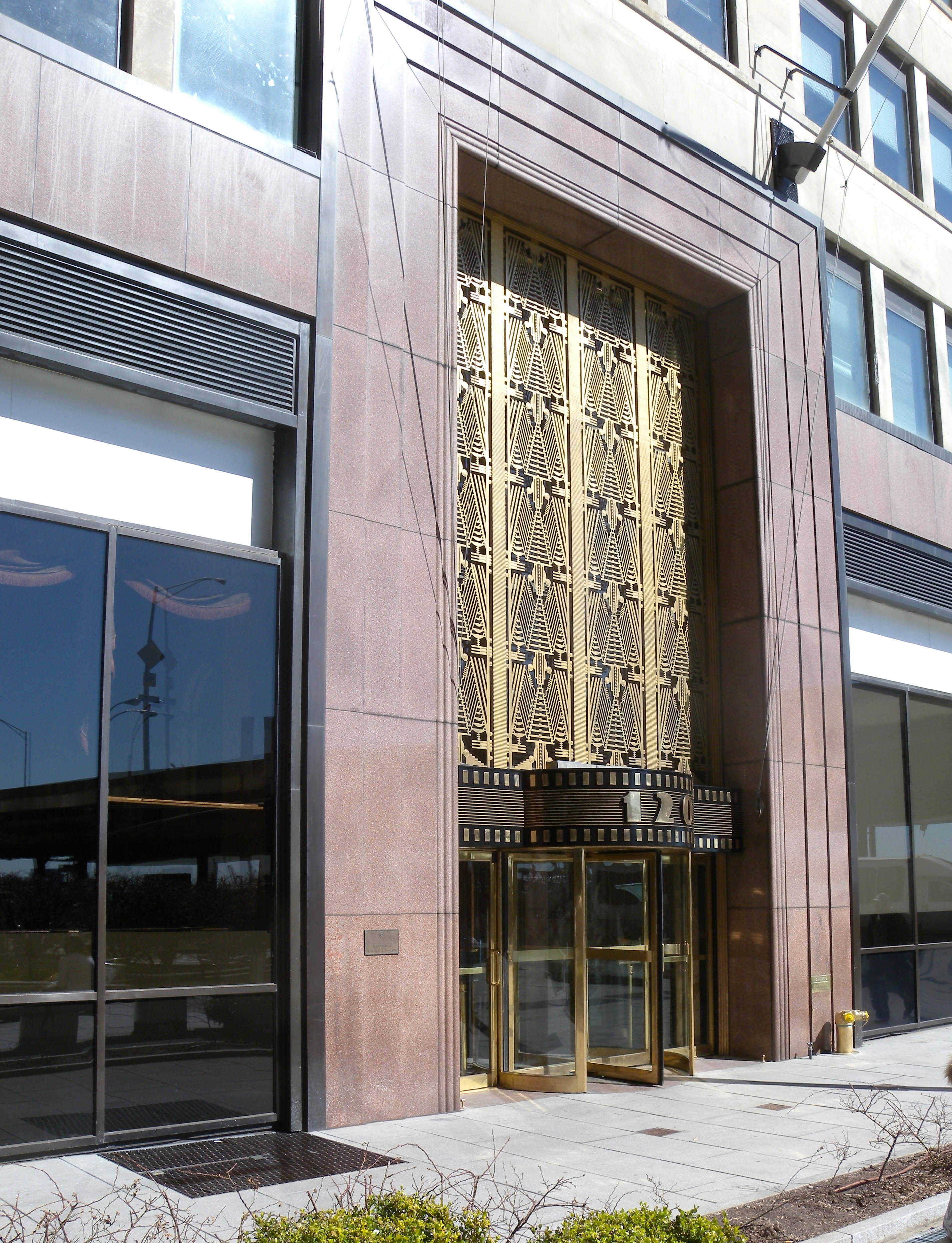 Looking east at doorway of 120 Wall Street, National Urban League, on a sunny midday.